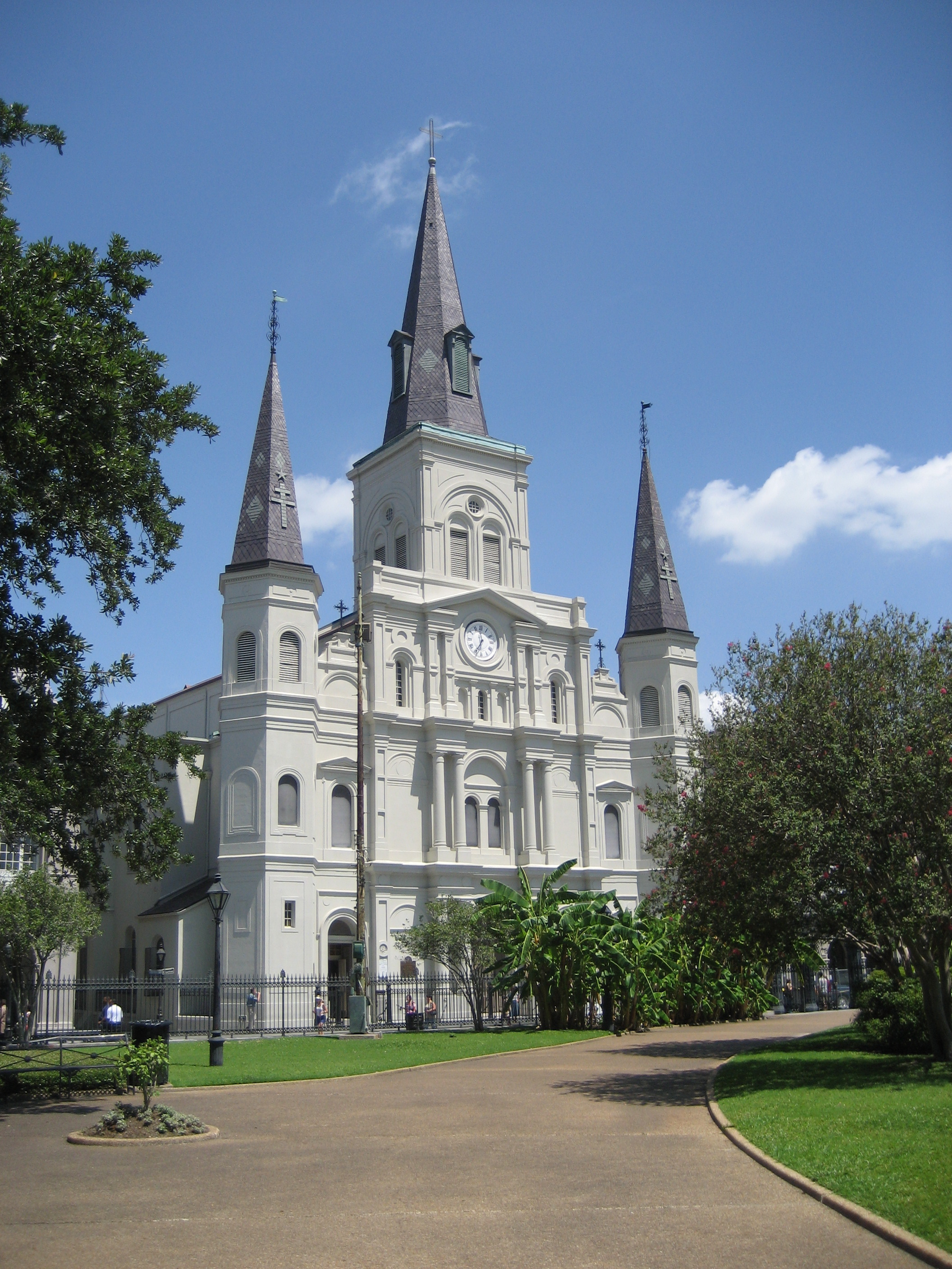 New Orleans: Saint Louis Cathedral seen from in Jackson Square